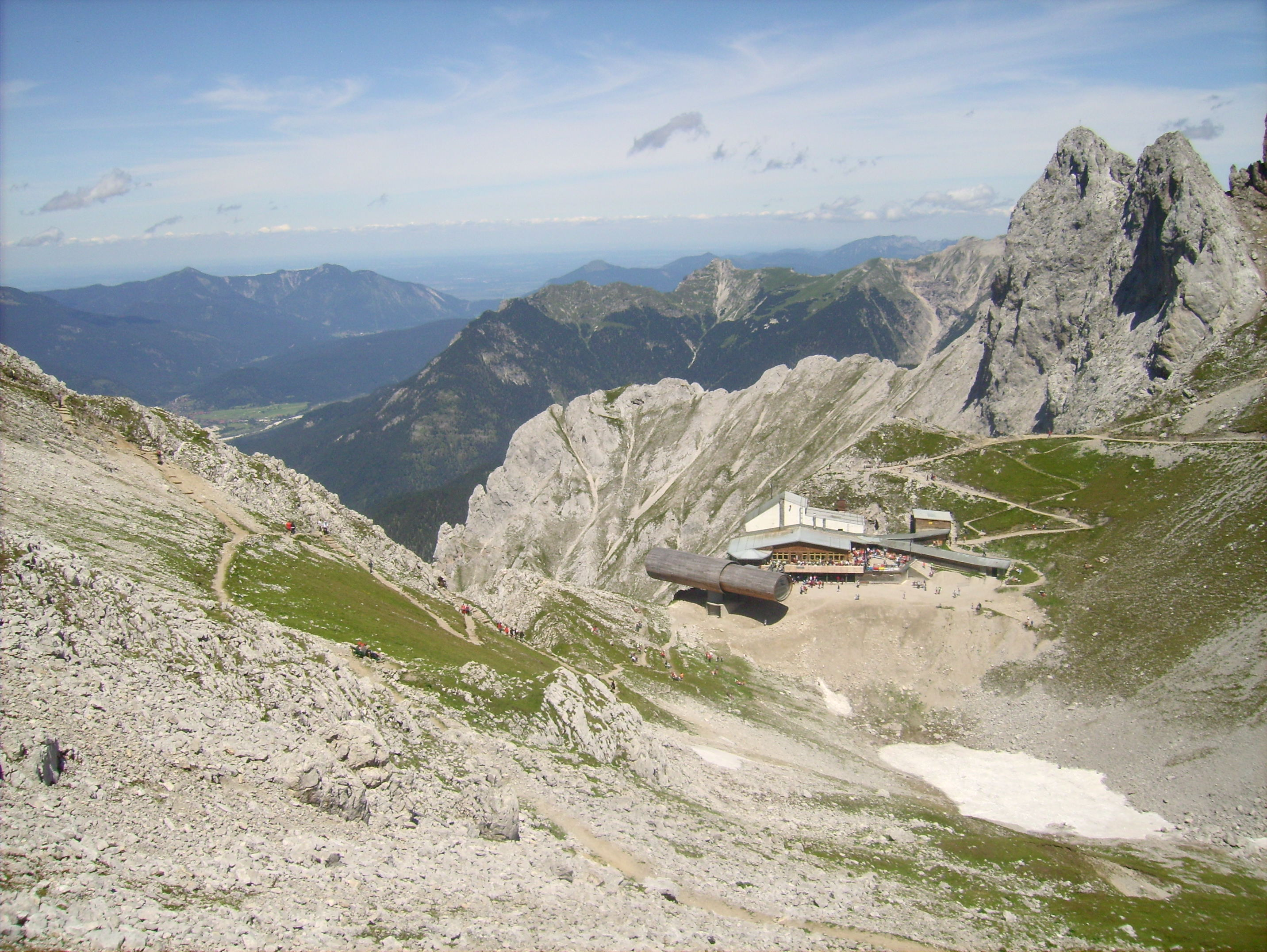 Top station of the Karwendelbahn, a cable car near Mittenwald, Bavaria, Germany